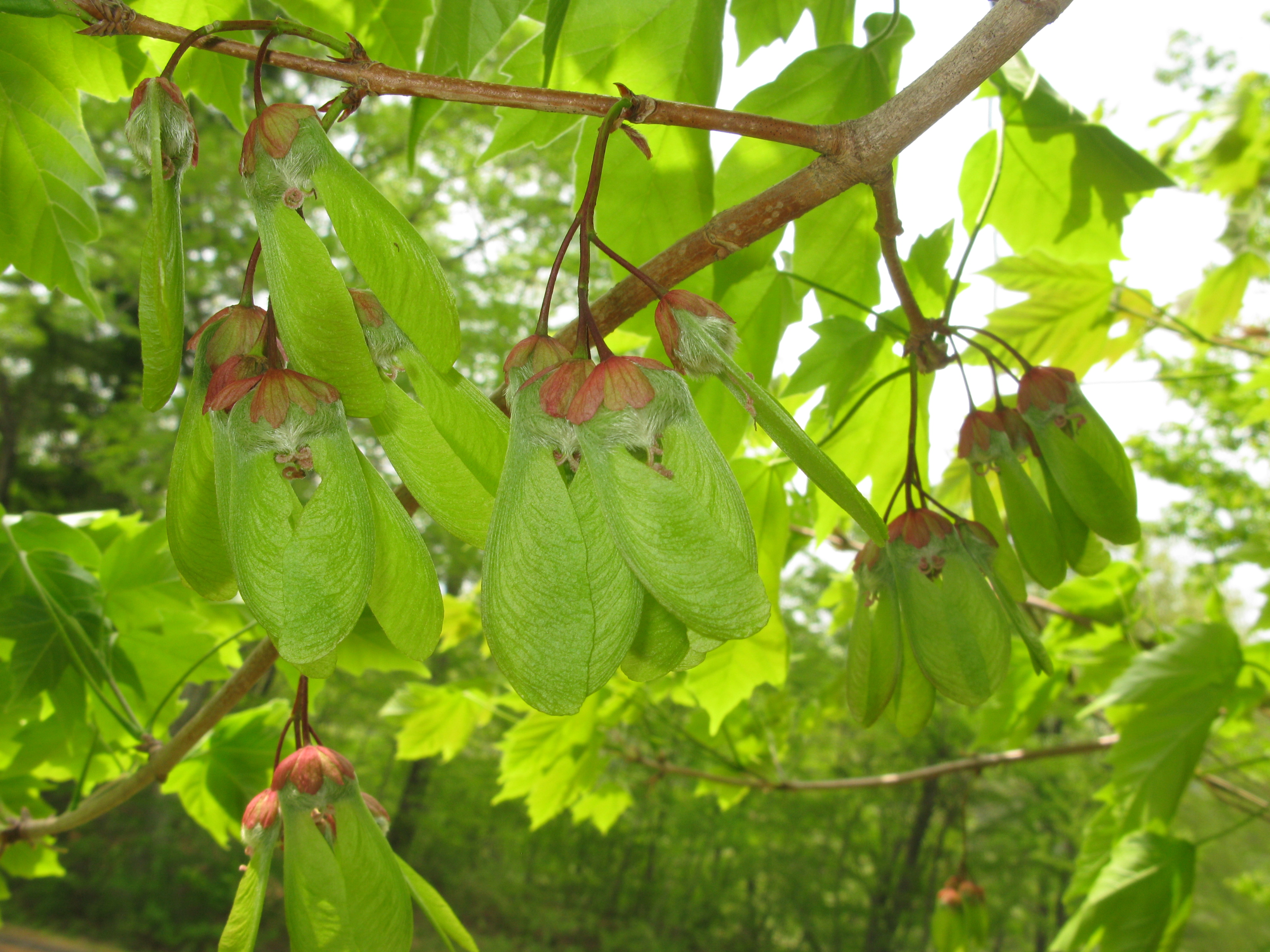 Acer diabolicum, fruits, Fukushima city, Fukushima pref., Japan